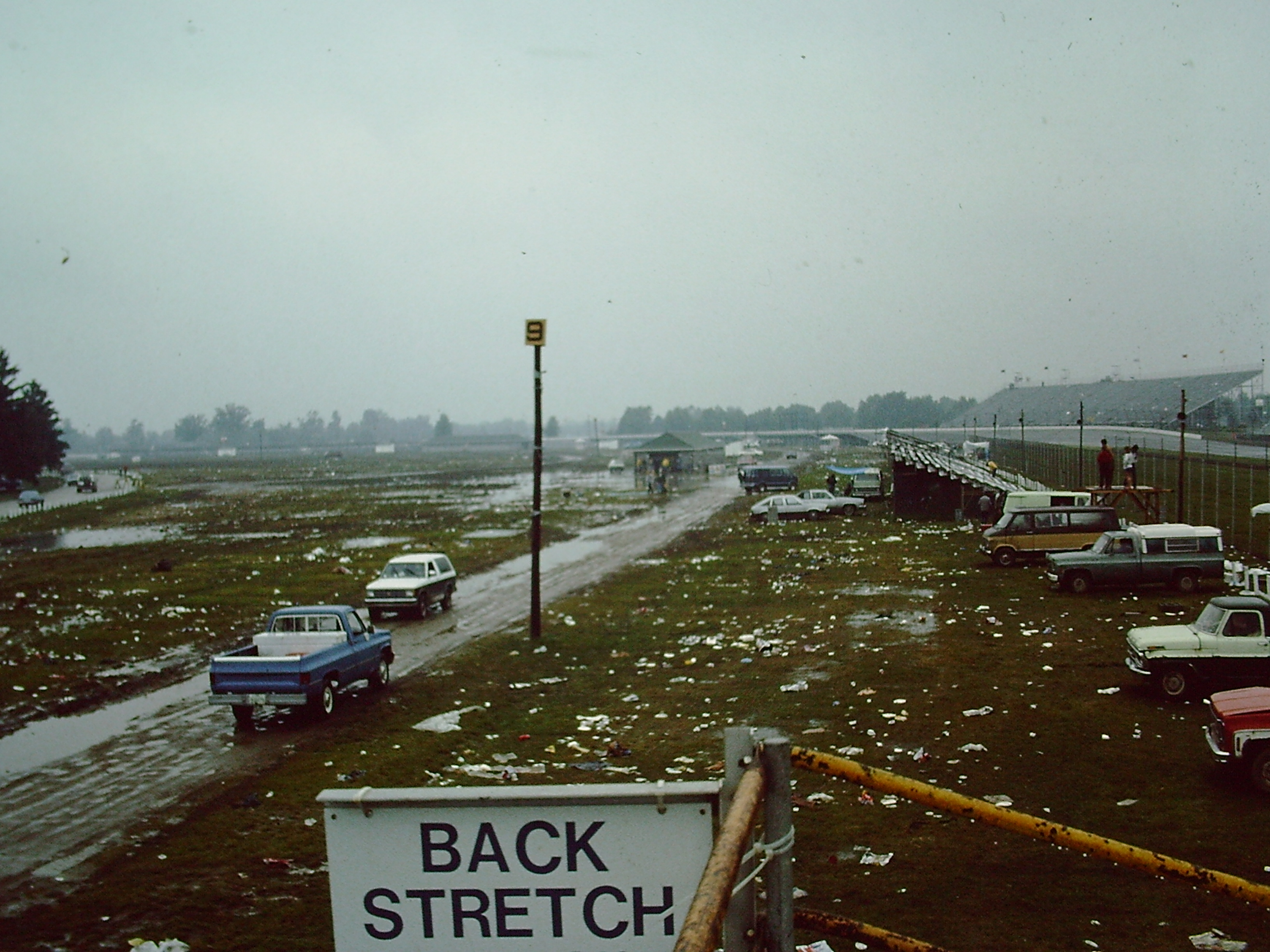 Photo of the rained out 1986 Indianapolis 500. Photo is taken in the infield of the Indianapolis Motor Speedway Monday May 26, 1986.